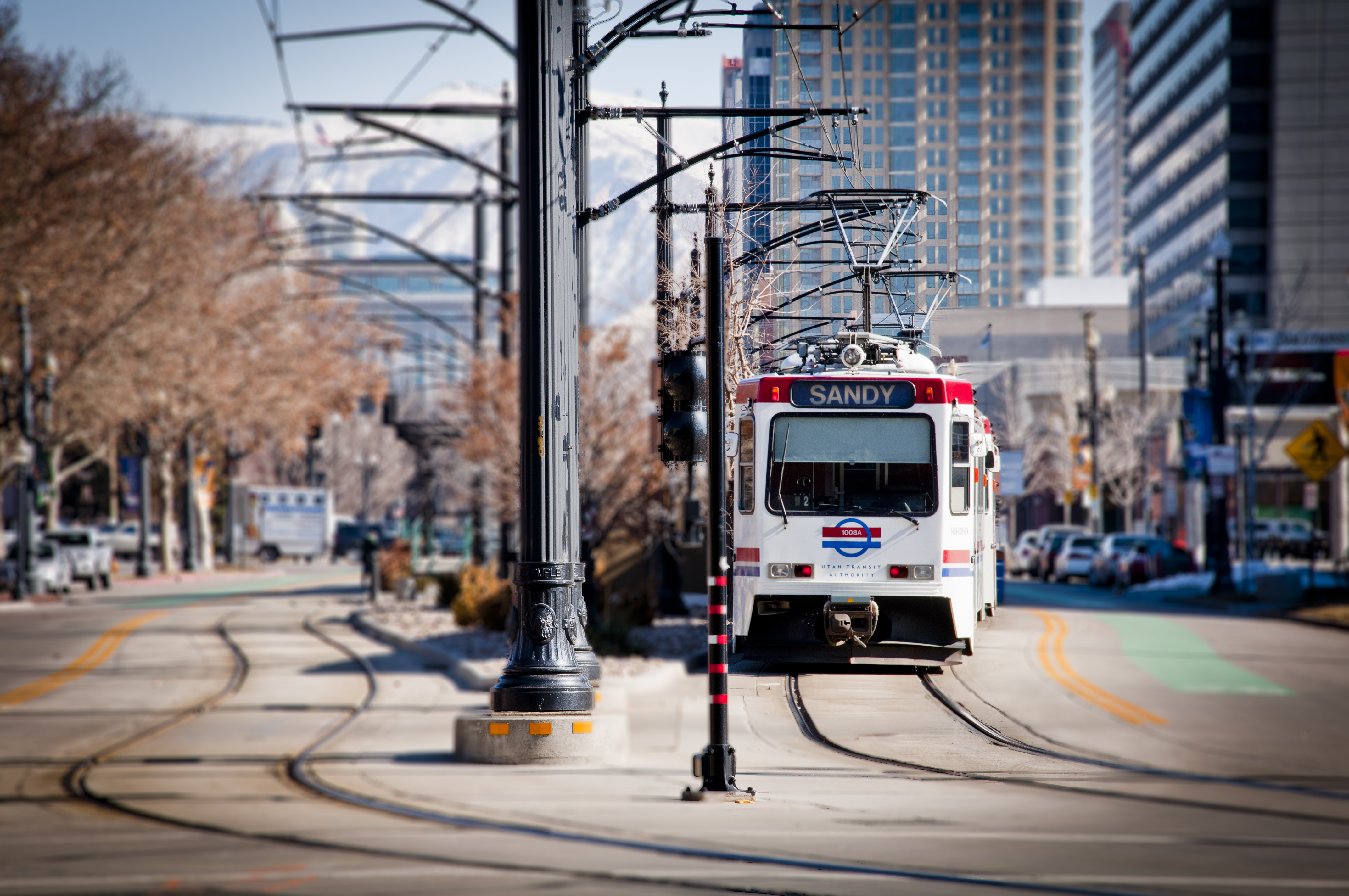 UTA TRAX train from Salt Lake City to Sandy on South Temple street.